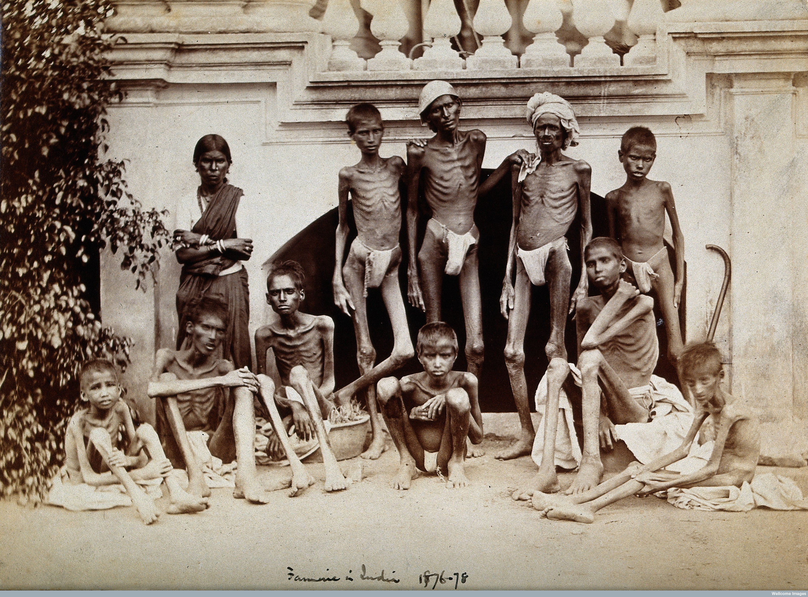 Famine in India: a group of emaciated young men wearing loin cloths and a woman wearing a sari. Photograph, 1876/1878.